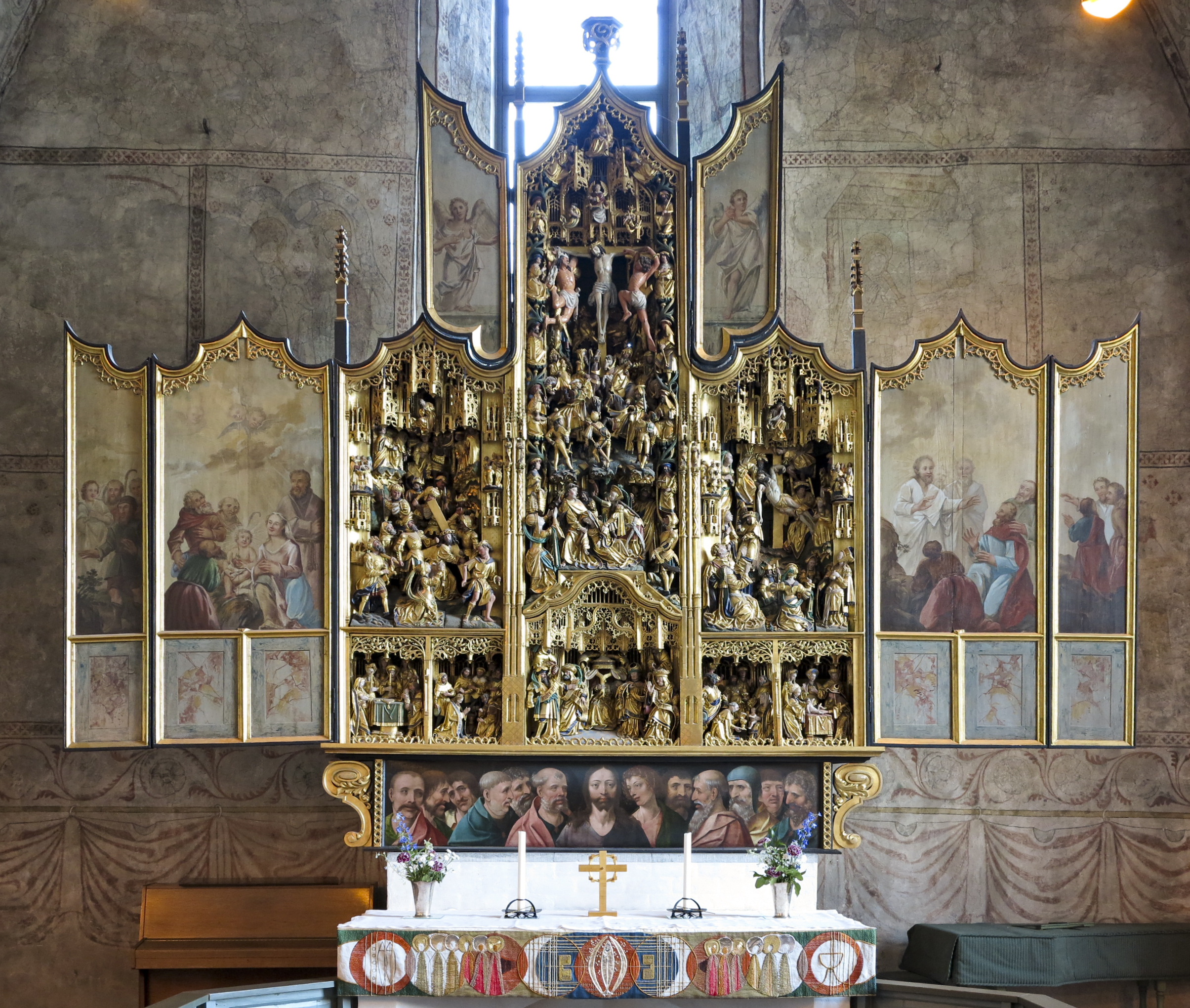 Nederluleå church, Luleå, Sweden. Altarpiece